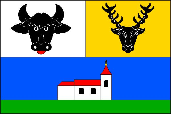 Municipal flag of Havraň village, Most District, Czech Republic.